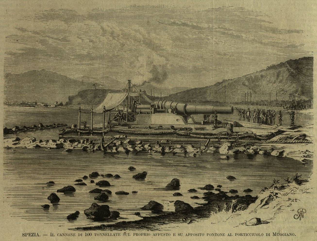 In November 1876 the first gun for the Italian Duilio-class battleships was tested at Muggiano near La Spezia. This illustration of the gun Margherita was featured in the November 12, 1876 issue of the L'Illustrazione Italiana. This picture was at page 373, with an article on page 374. The illustrator is not mentioned, but there is both a set of initials and a signature that reads something like "Canedi".